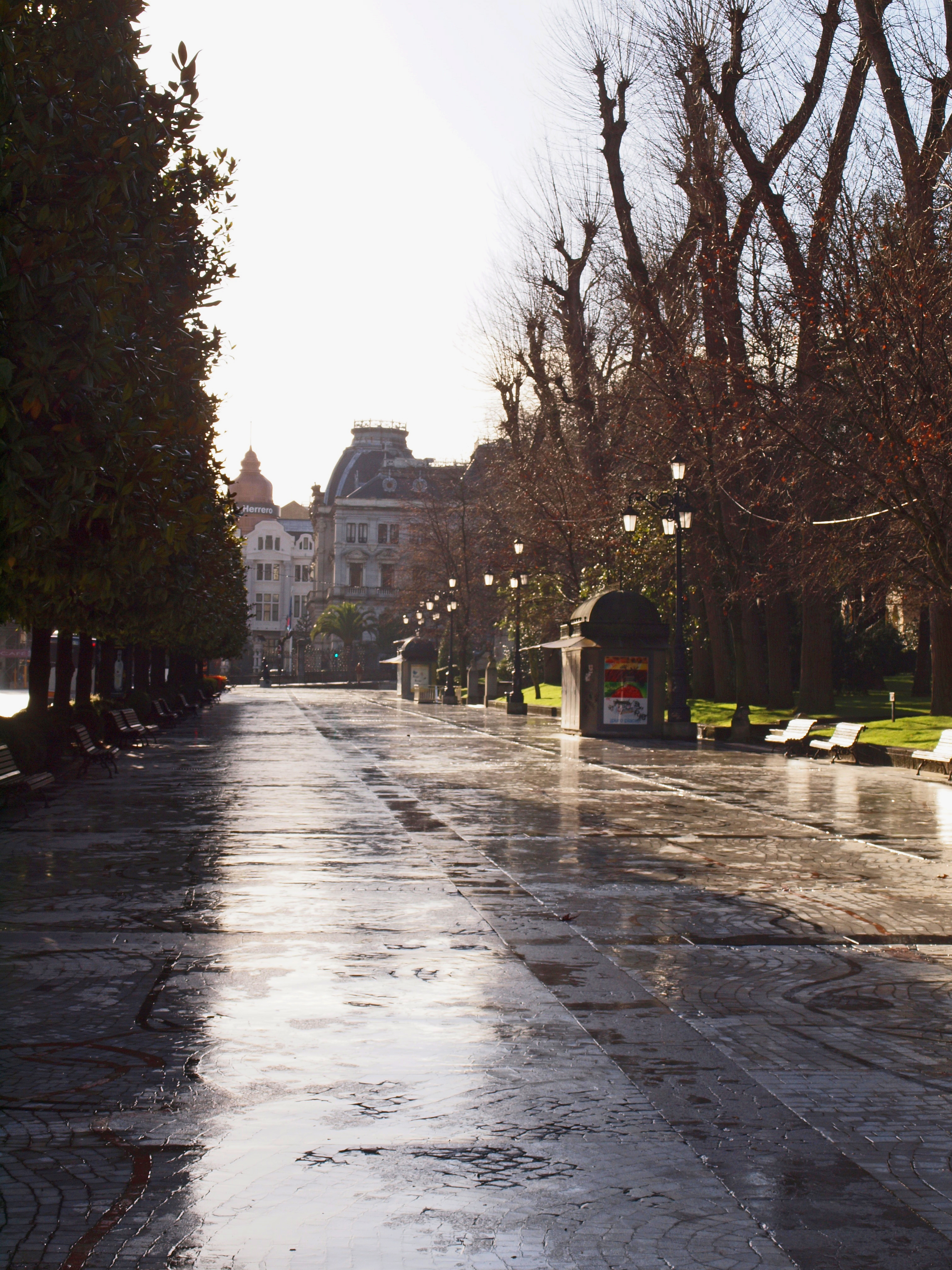 Paseo de los Álamos. Oviedo. Principality of Asturias. Spain.